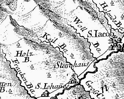 Detail from Anich's Atlas Tyrolensis (1770) showing the Keilbach creek near Steinhaus in the Ahrntal valley, South Tyrol